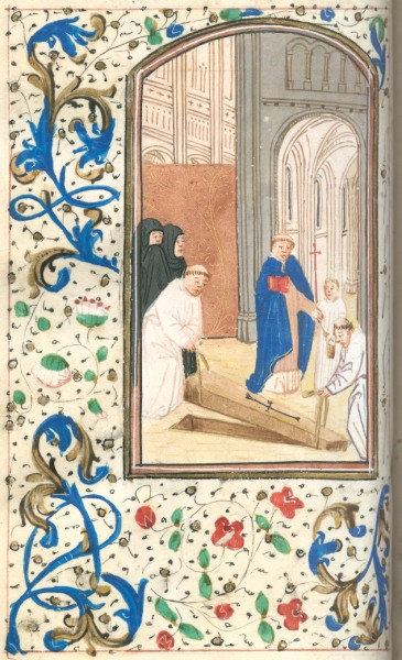 Miniature from a Brabant manuscript, ca. 1460. Liturgy of the dead. Formerly Abbey of Berne, now in a private Dutch collection